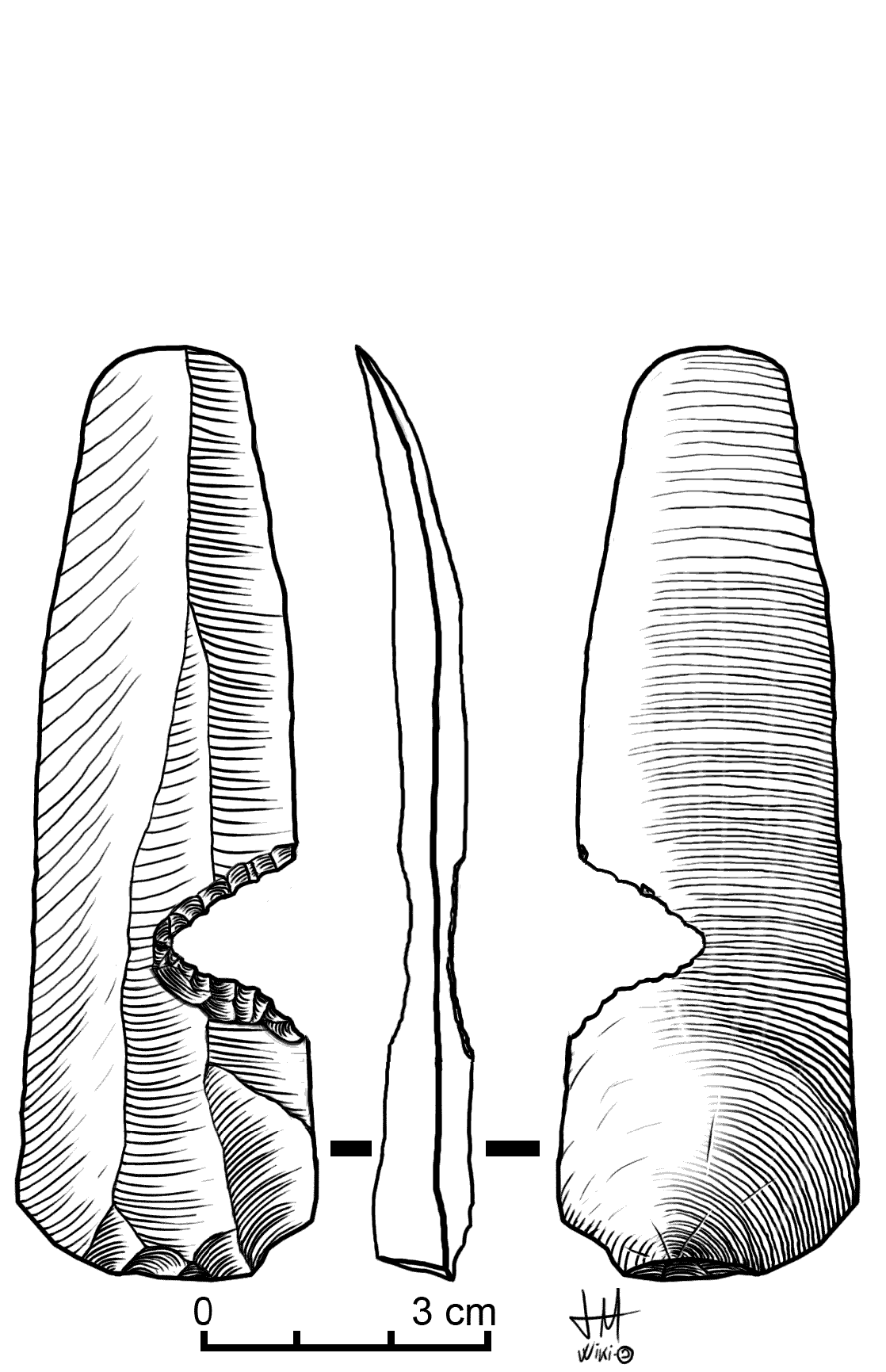 Microburin blow: first step: creation of a notch in the flint blade